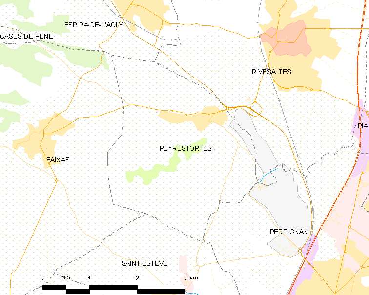 Map of French municipality